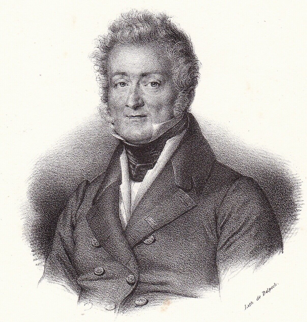 Portrait of Ferdinando Paër, Italian composer